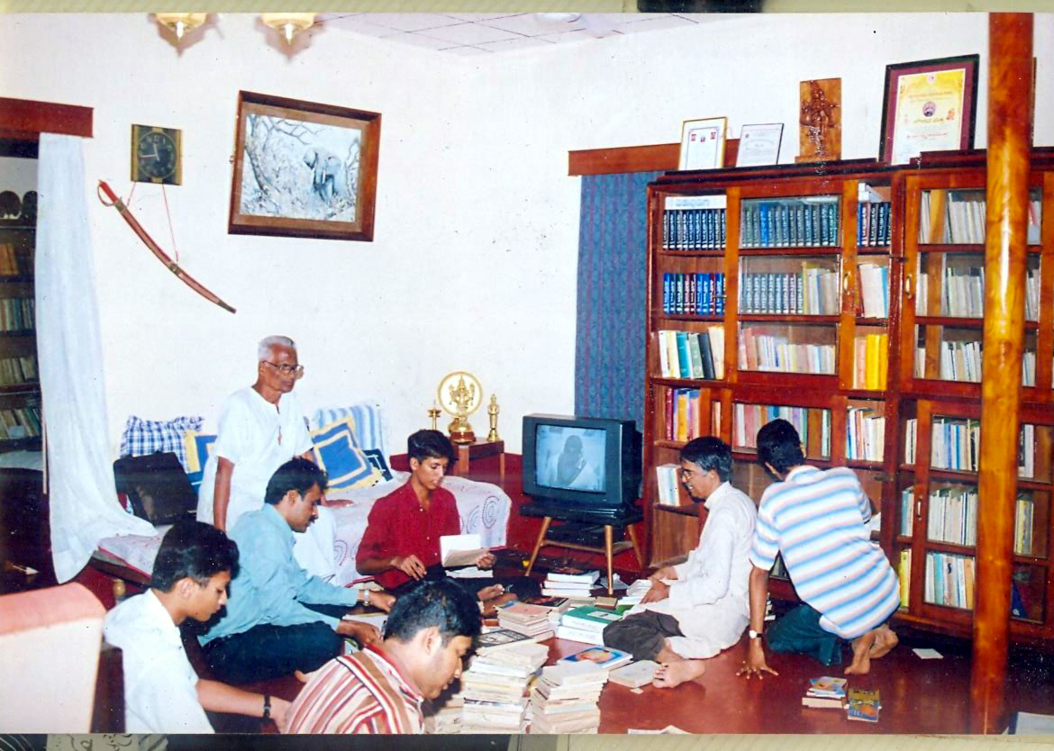 N Damodar Shetty 13